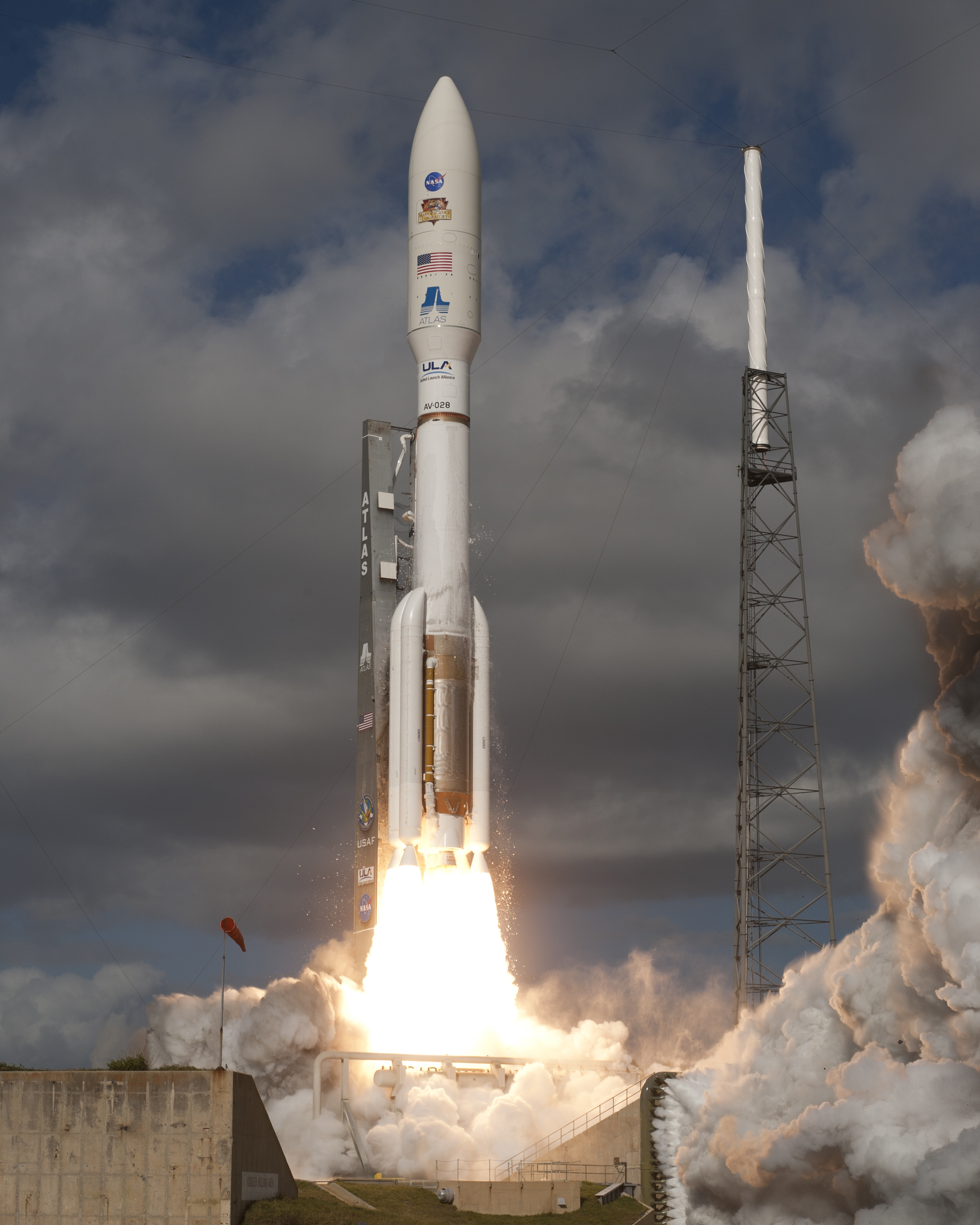 CAPE CANAVERAL, Fla. -- With NASA's Mars Science Laboratory (MSL) spacecraft sealed inside its payload fairing, the United Launch Alliance Atlas V rocket rides smoke and flames as it rises from the launch pad at Space Launch Complex-41 on Cape Canaveral Air Force Station in Florida at 10:02 a.m. EST Nov. 26. MSL's components include a car-sized rover, Curiosity, which has 10 science instruments designed to search for signs of life, including methane, and help determine if the gas is from a biological or geological source.